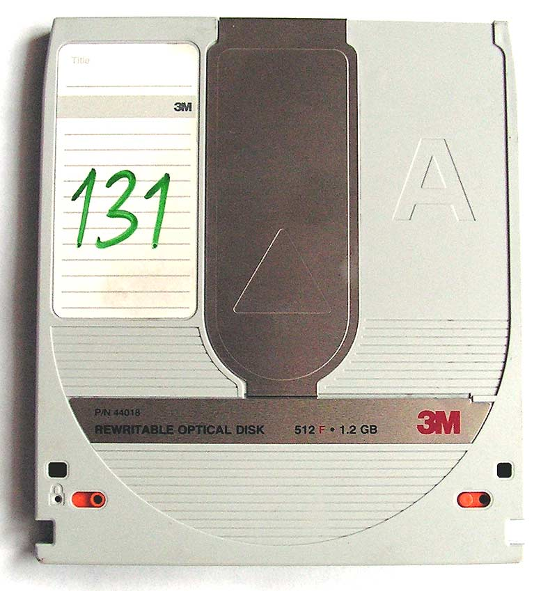 Magnetooptical disc. Capacity 1,2GB